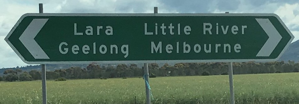 A road sign indicating Little River, on the way from Melbourne to Geelong